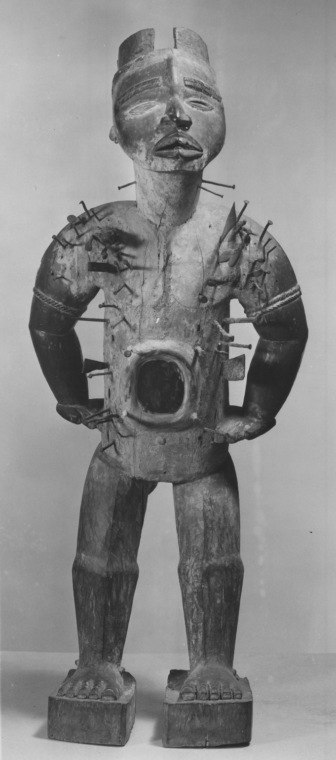 Image of a man, stuck with nails and knives. Mirror in navel. Free carved feet standing on a block. Hands at hips. Stained white in most parts. Four flat pronged high headdress. Open mouth with teeth and tongue showing. Bracelets around biceps. Condition: Good